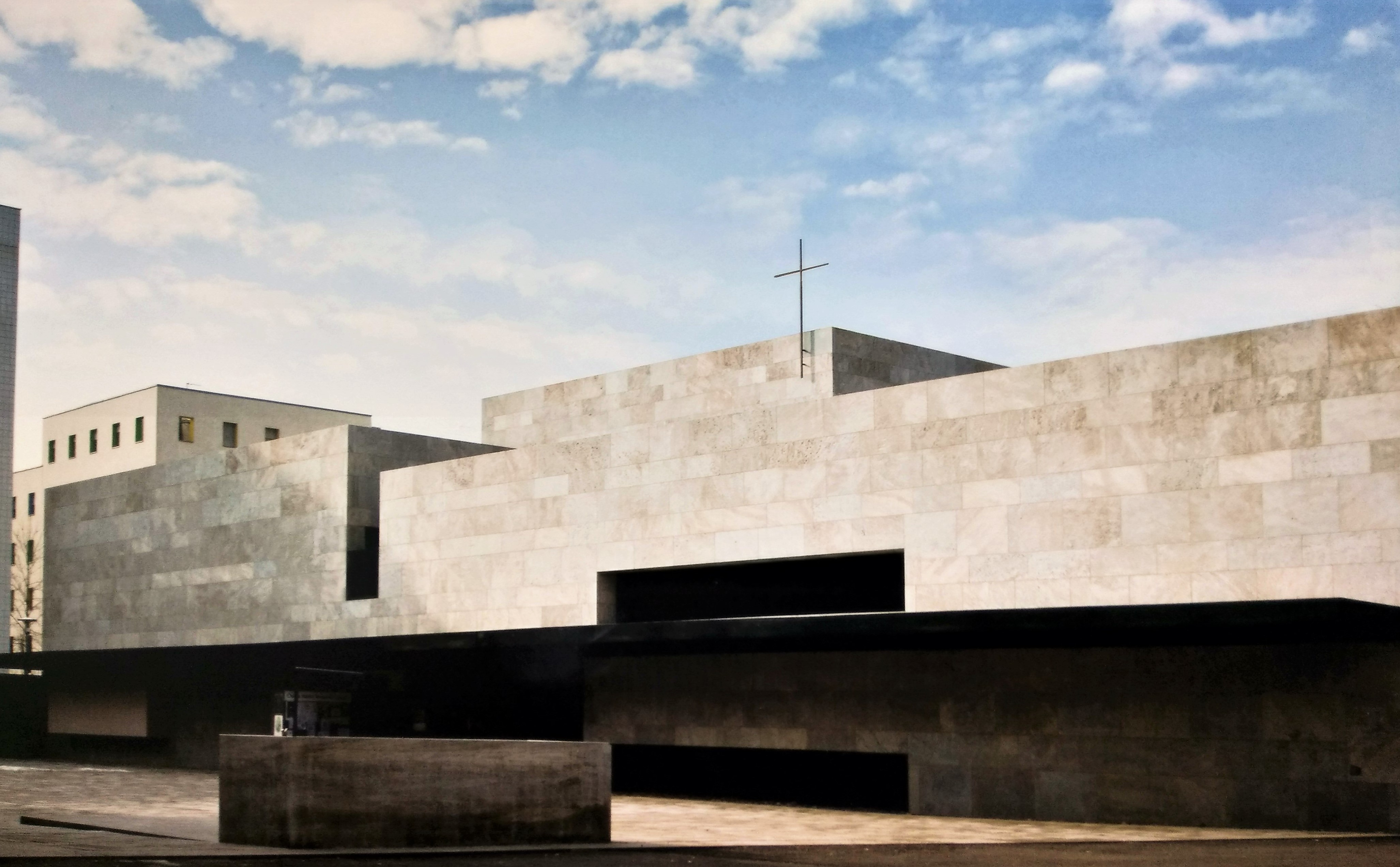 The Teresa of Kalkutta Church in Bozen-Bolzano, Firmian quarter